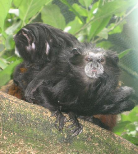 Weddell's saddle-back tamarins (Saguinus fuscicollis weddelli) on a branch in Zoo Parc Overloon